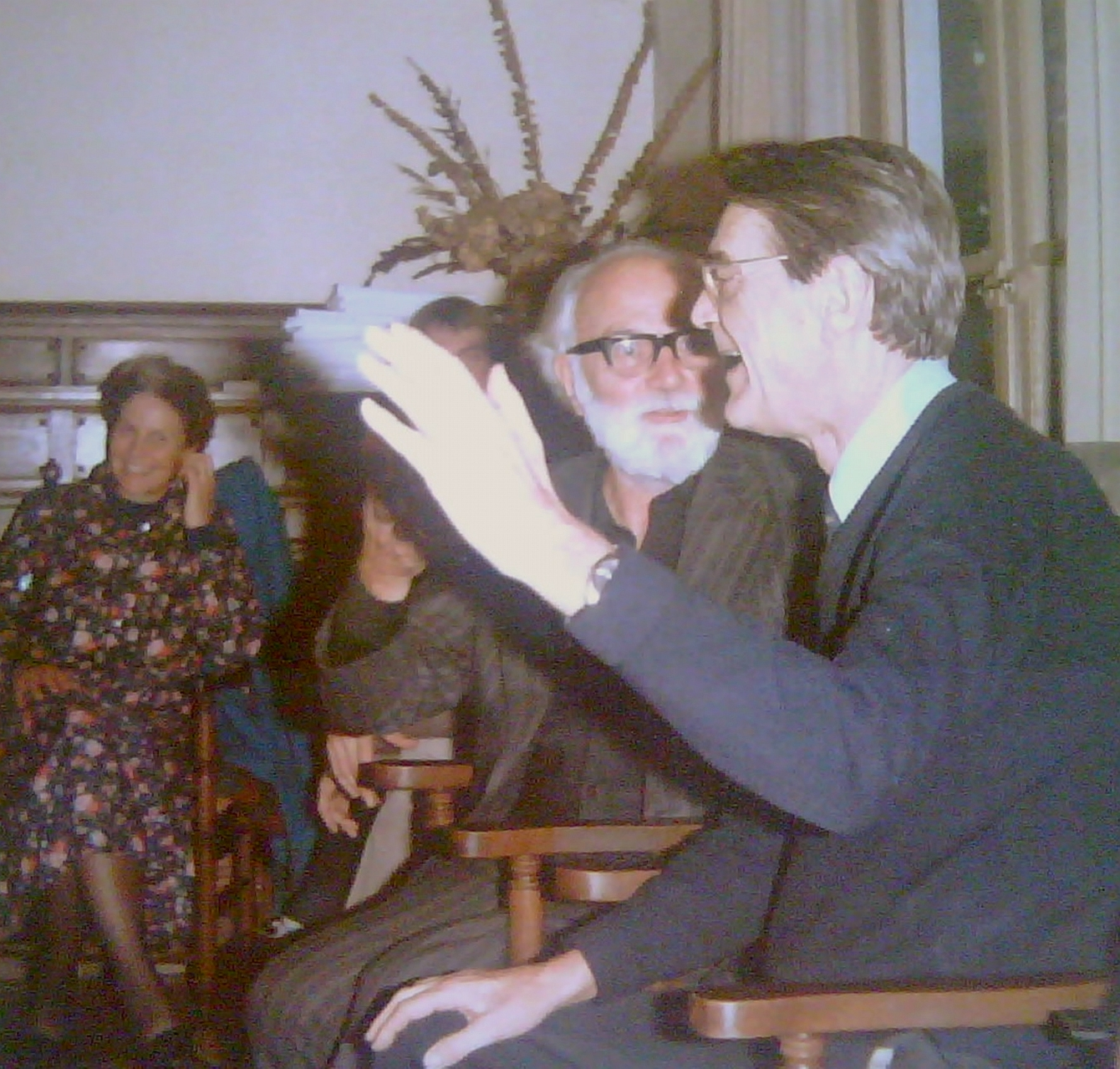 meetings of Douglas Harding (second from the right) translated by Wolter Keers (at the front) on the estate Hoorneboeg, nov. 1984